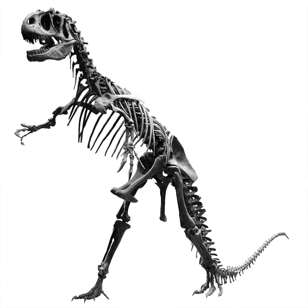 Skeleton of an Allosaurus, a dinosaur of the Late Jurassic. Molding of a specimen discovered in Utah, USA.